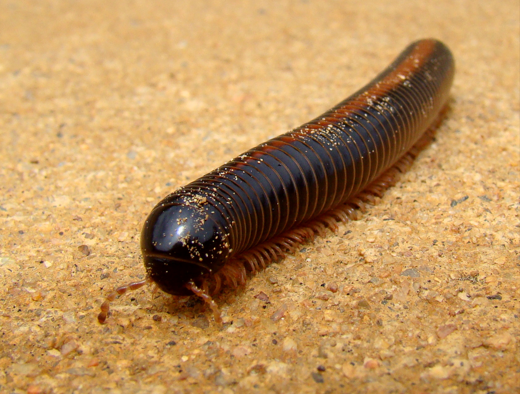 A giant African millipede photographed while ambling along in the Amphitheatre region in Drakensberg, South Africa.